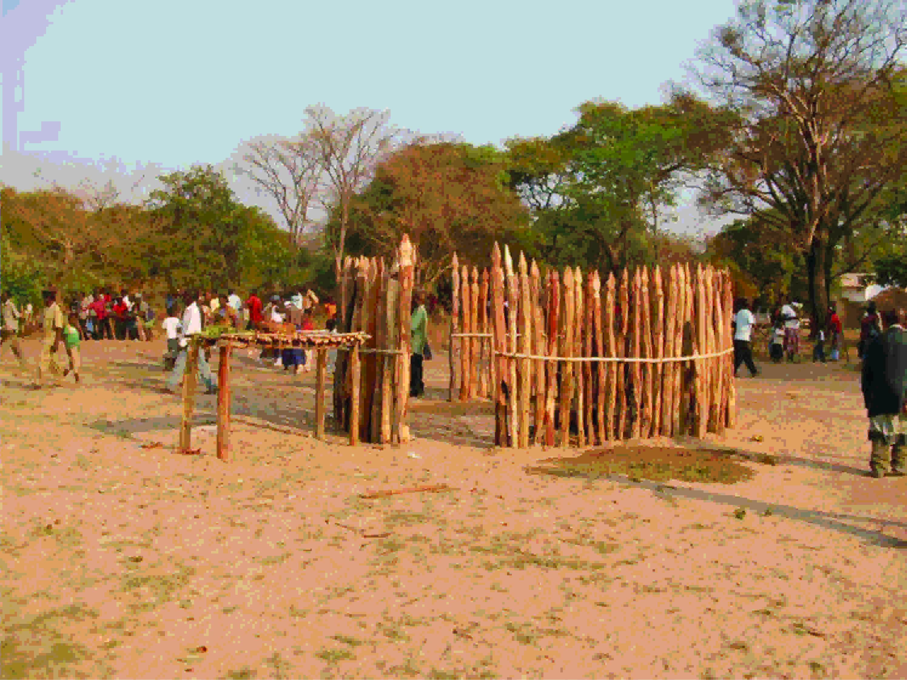 Mbunda Lukwakwa or defencive fence symbolizes the way the mbunda defended themselves during the Makololo uprisings in early nineteenth century.